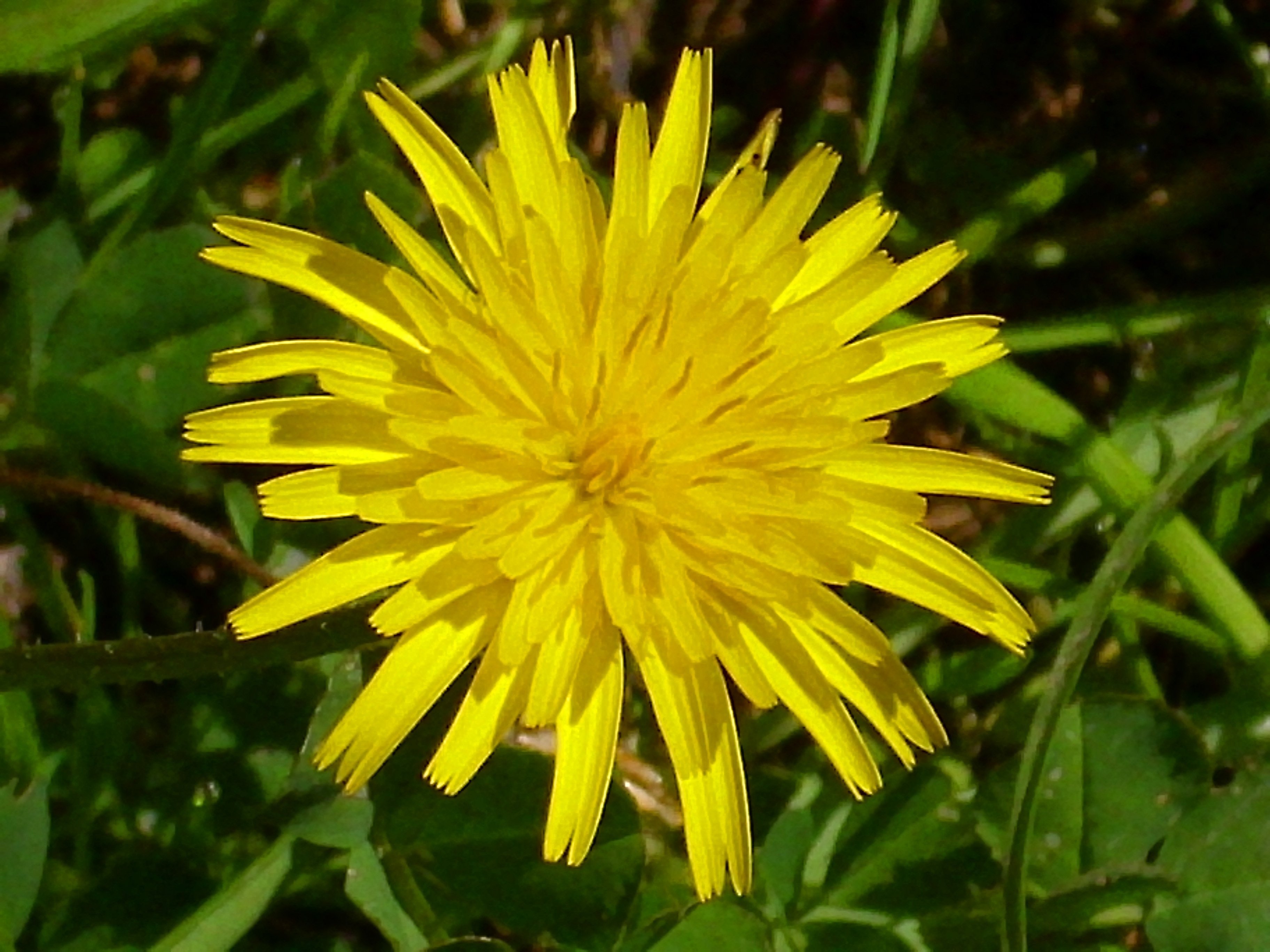 Leontodon tuberosus inflorescence, in Sierra Madrona, Spain.